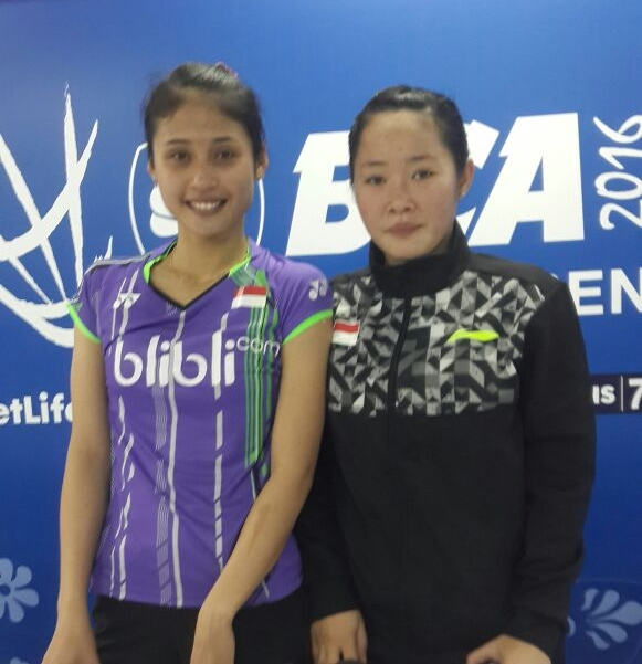 Rizki Amelia Pradipta (left) and Tiara Rosalia Nuraidah during a press conference at the 2016 Indonesia Open